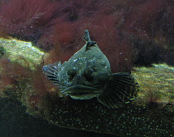 Myoxocephalus scorpius